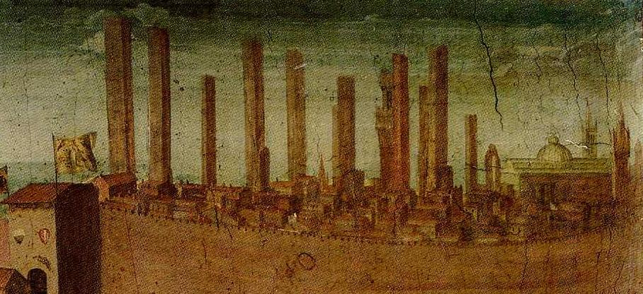 The victory of Camollia of 1527, from January to December of Giovanni di Lorenzo Cini - Le torri di Siena in un antico dipinto (particolare